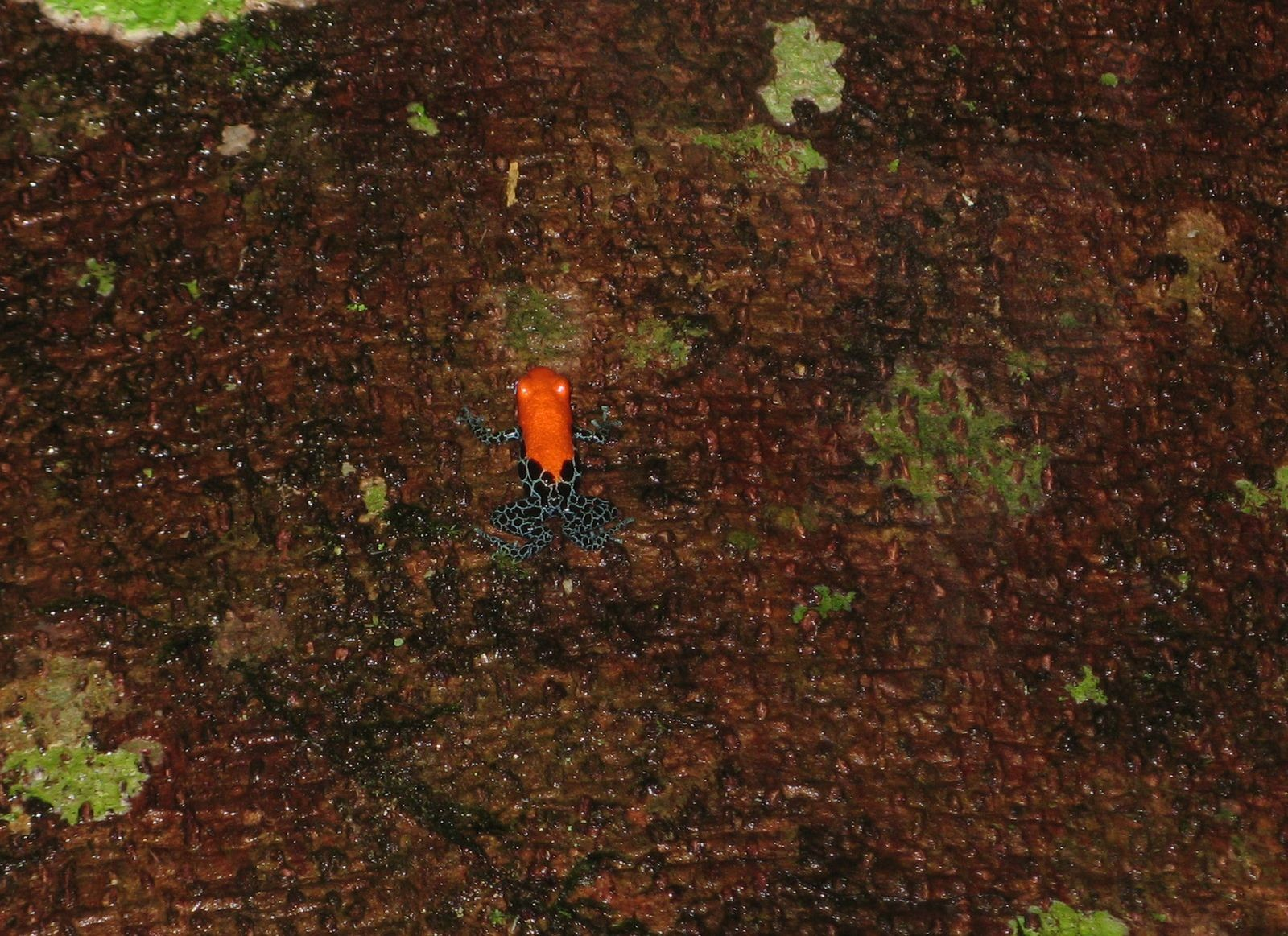 And evening photo, flash-assisted of a Dendrobates reticulatus. Also known as a poison dart frog. Taken several miles north of Iquitos, Peru.